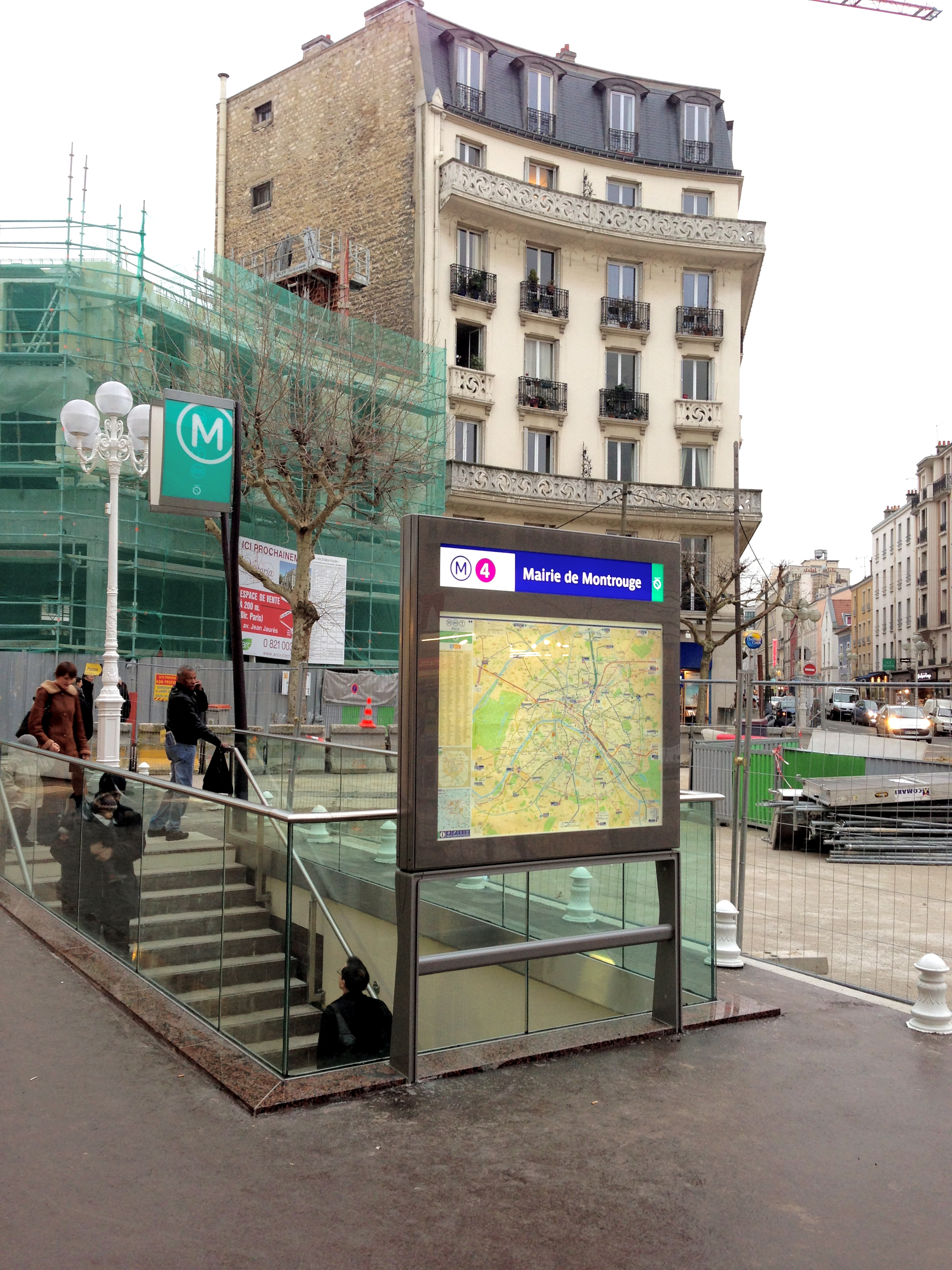 Entry to Mairie de Montrouge metro station (Paris metro line 4)